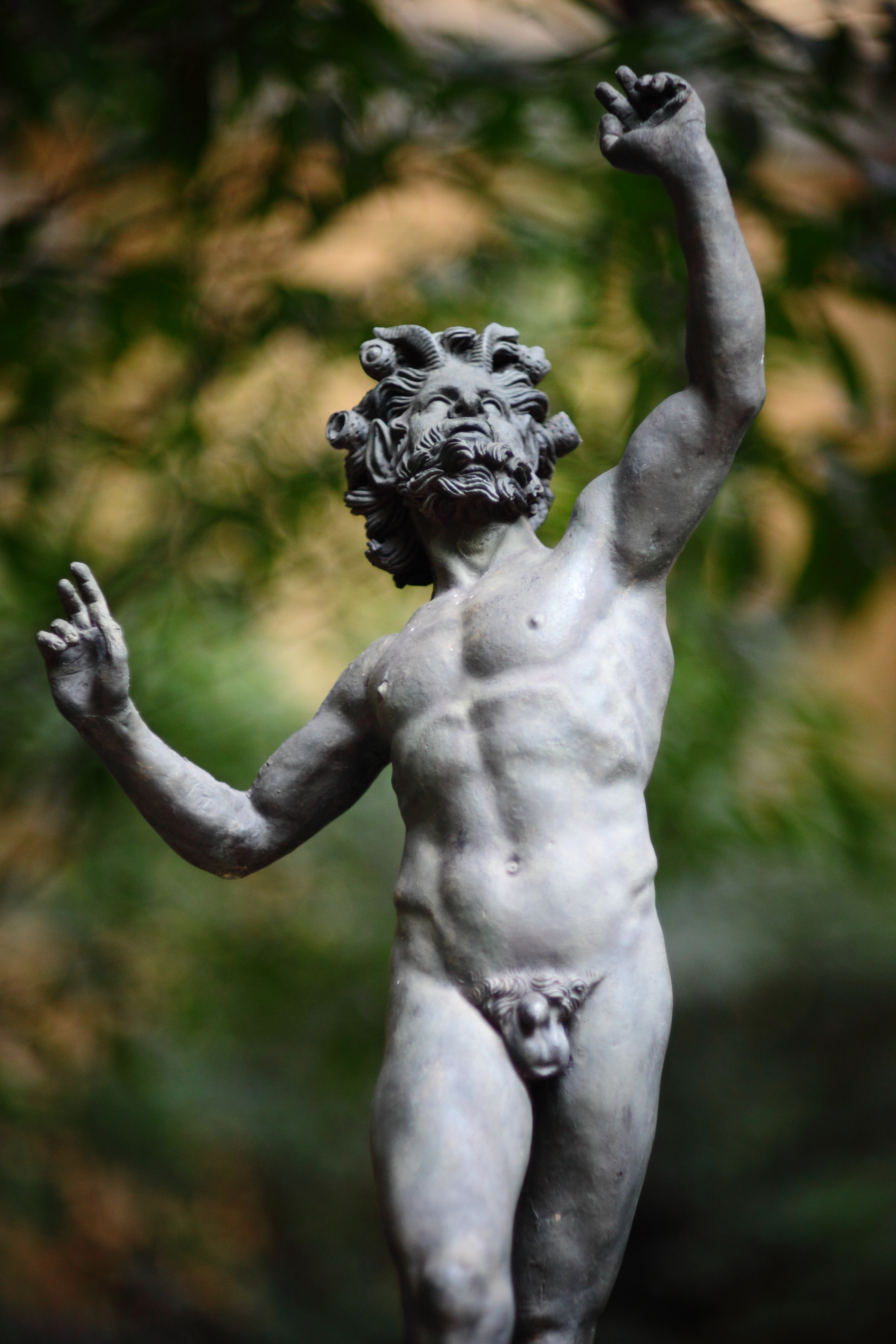 Dancing Faun statue located in the garden of Sorolla's Museum (Madrid). Picture taken witn a softfocus lens, Tamron SP 70-150mm f/2.8 SOFT.